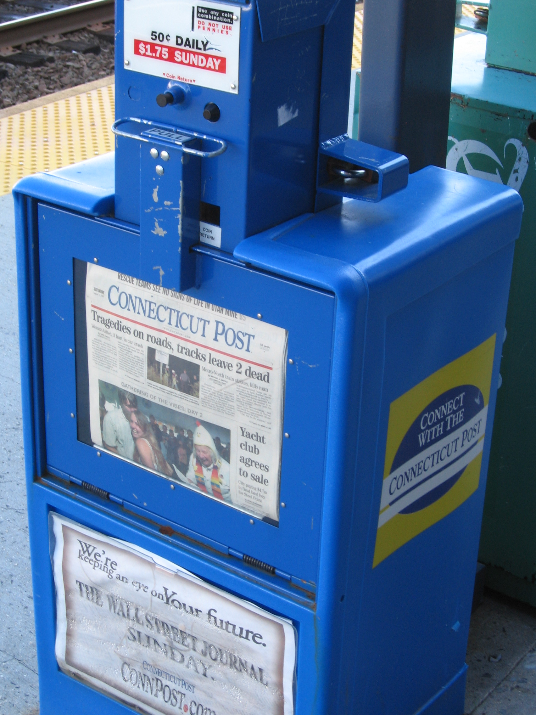 Vending box for the Connecticut Post newspaper, at the South Norwalk (Metro-North station).